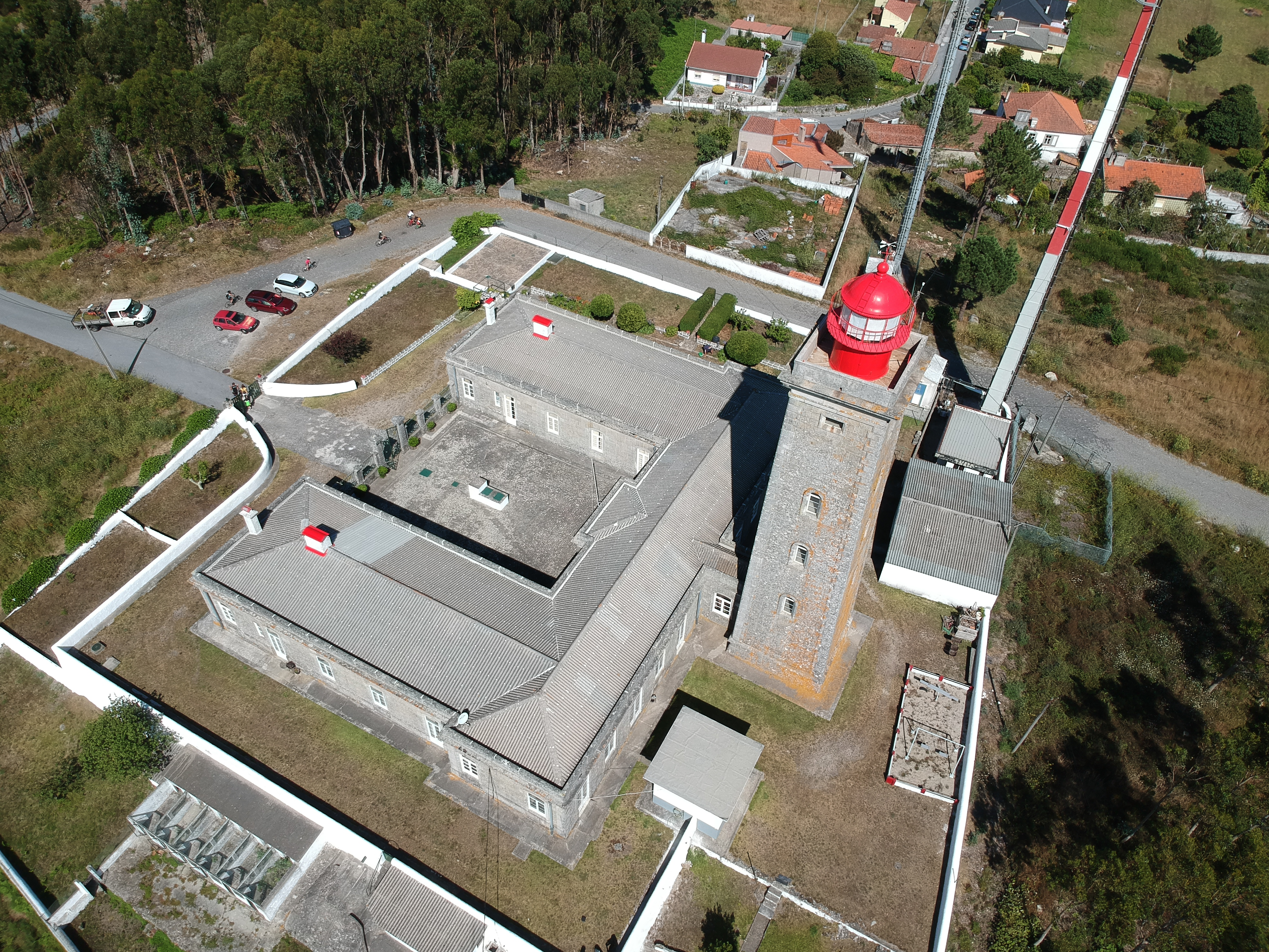 Aerial photograph of Montedor Lighthouse, Portugal.